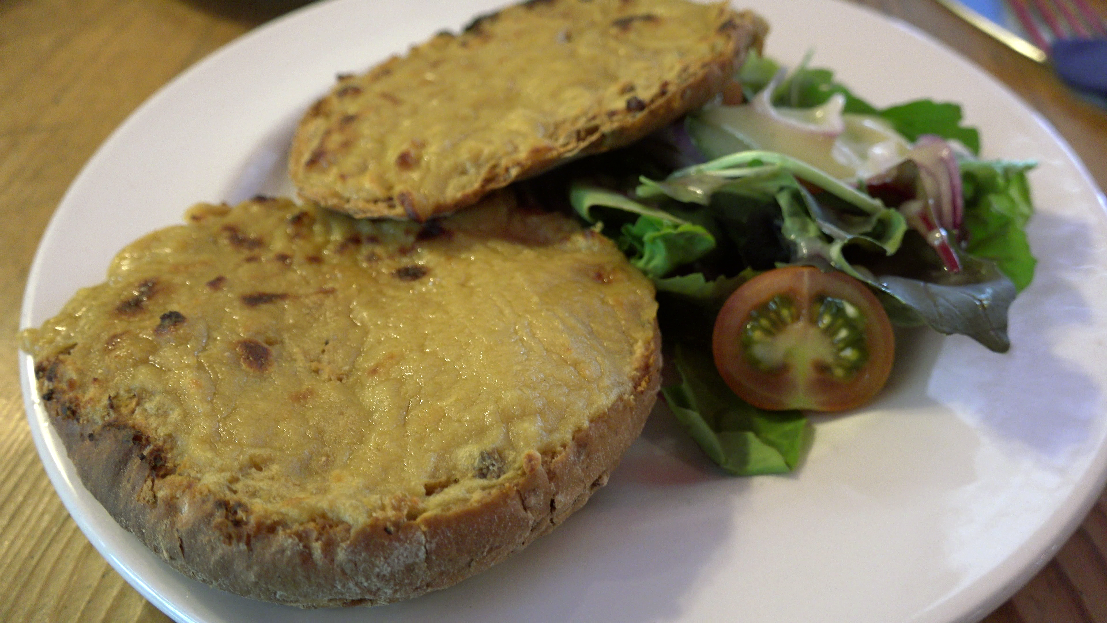 Welsh Rarebit